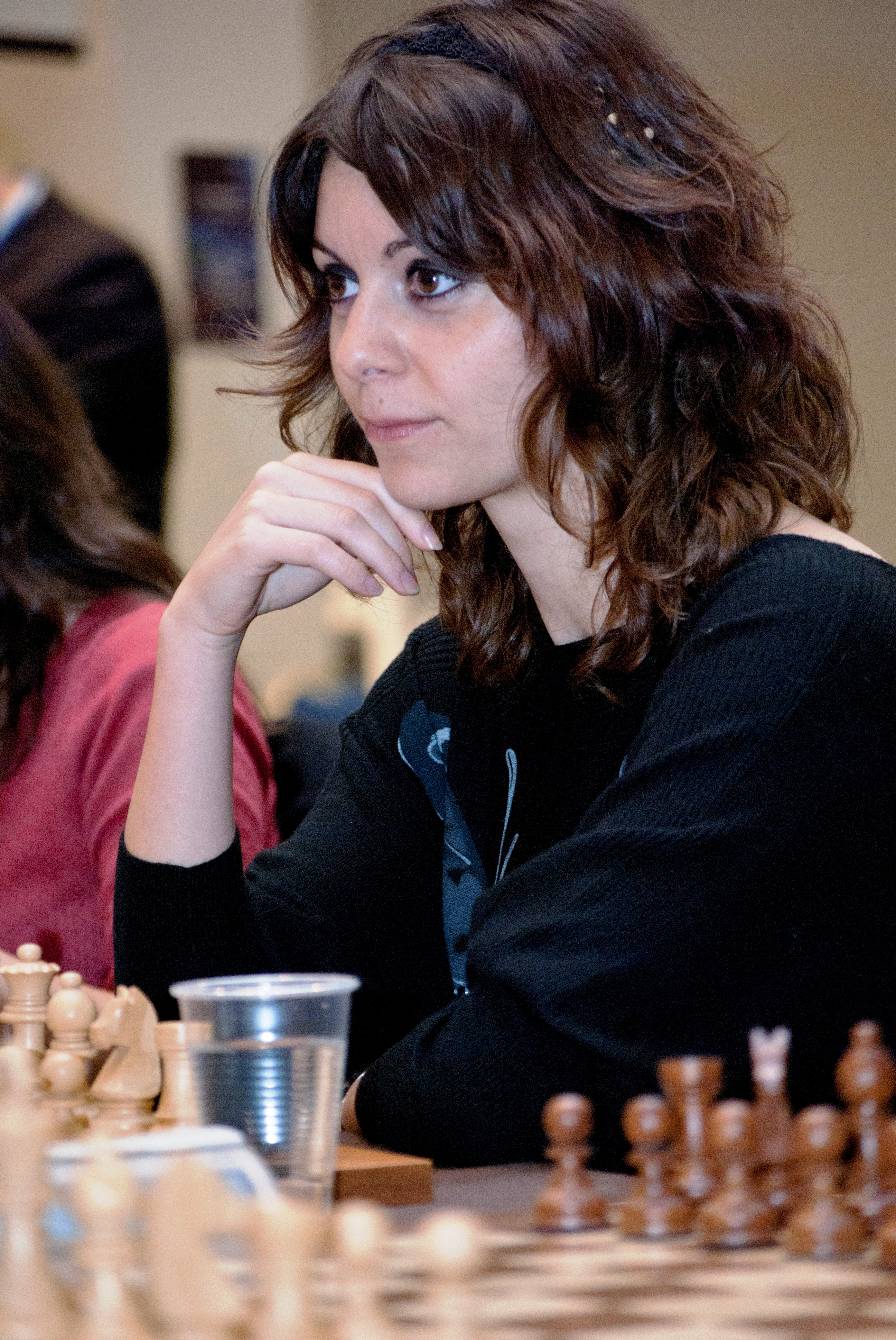 WGM Nino Maisuradze, Porto Carras EchT 2011.